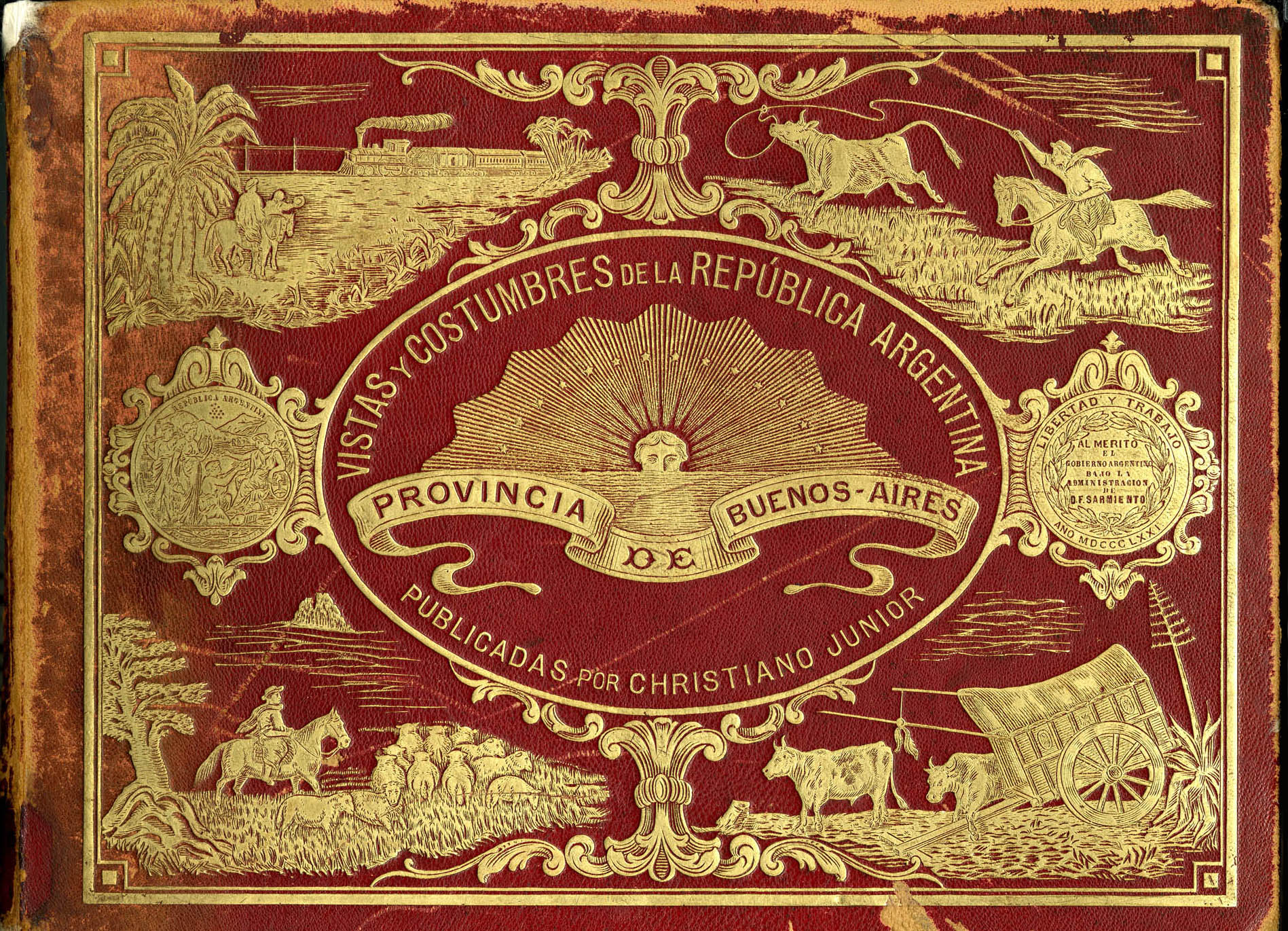 Cover to Vistas y Costumbres de la República Argentina a book by Portuguese photographer Christiano Junior, edited in Buenos Aires.